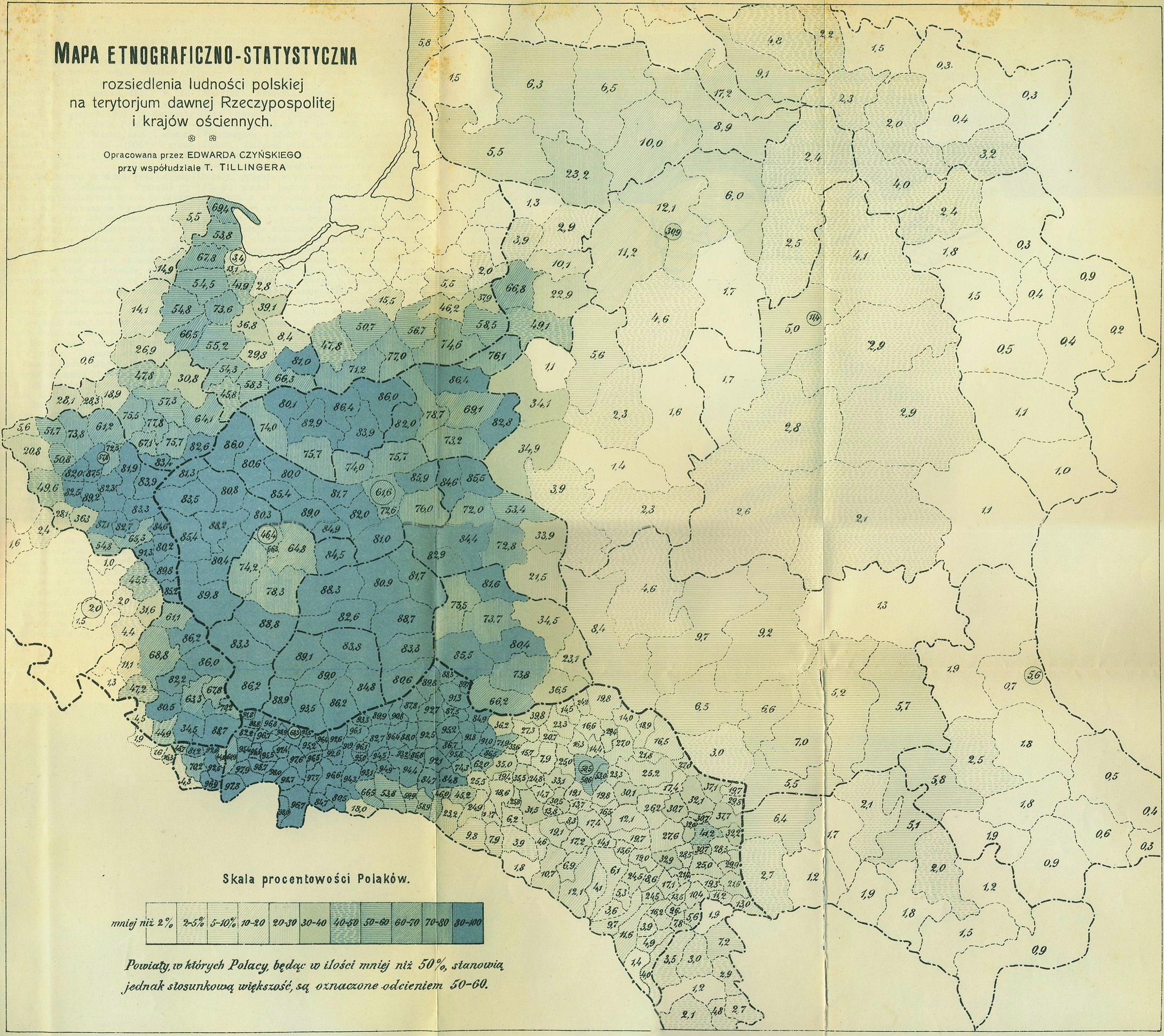 An etnographic/statistical map of the distribution of Polish population over the territory of the former Polish-Lithuanian Commonwealth and the neighbouring lands; drawn up by Tadeusz Czyński with collaboration of T. Tillinger; published in the Orgelbrand Encyclopaedia 1912.